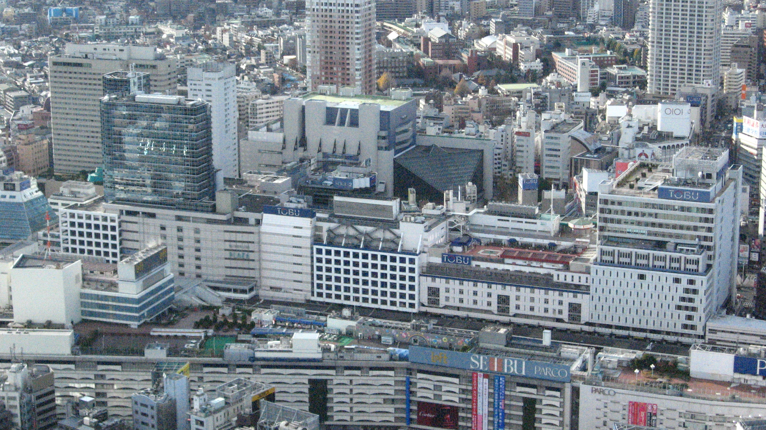 Tobu-dept_ikebukuro.